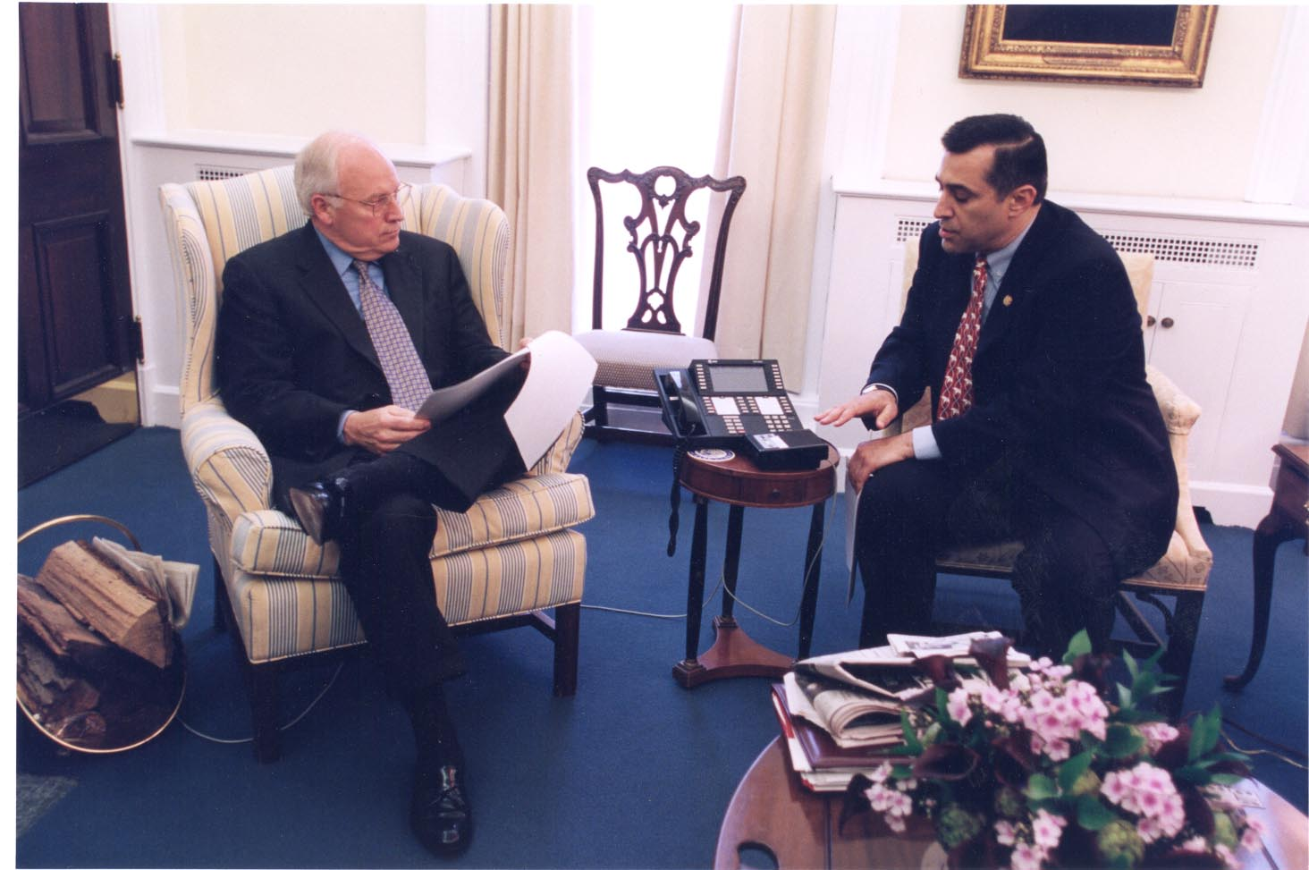 The Congressman meets with Vice President Dick Cheney about the California energy crisis